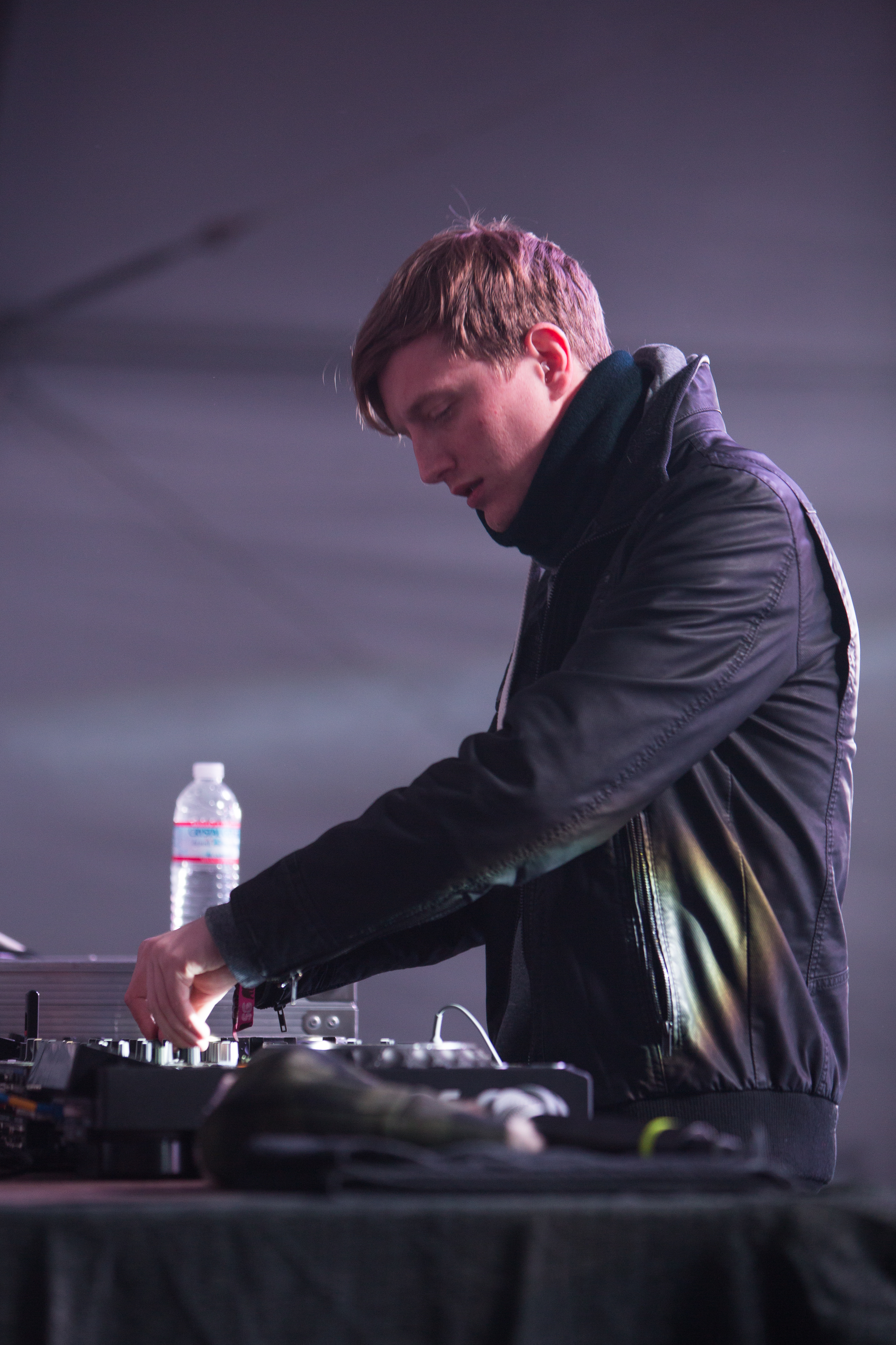 Djemba Djemba performing at Snow Globe Festival